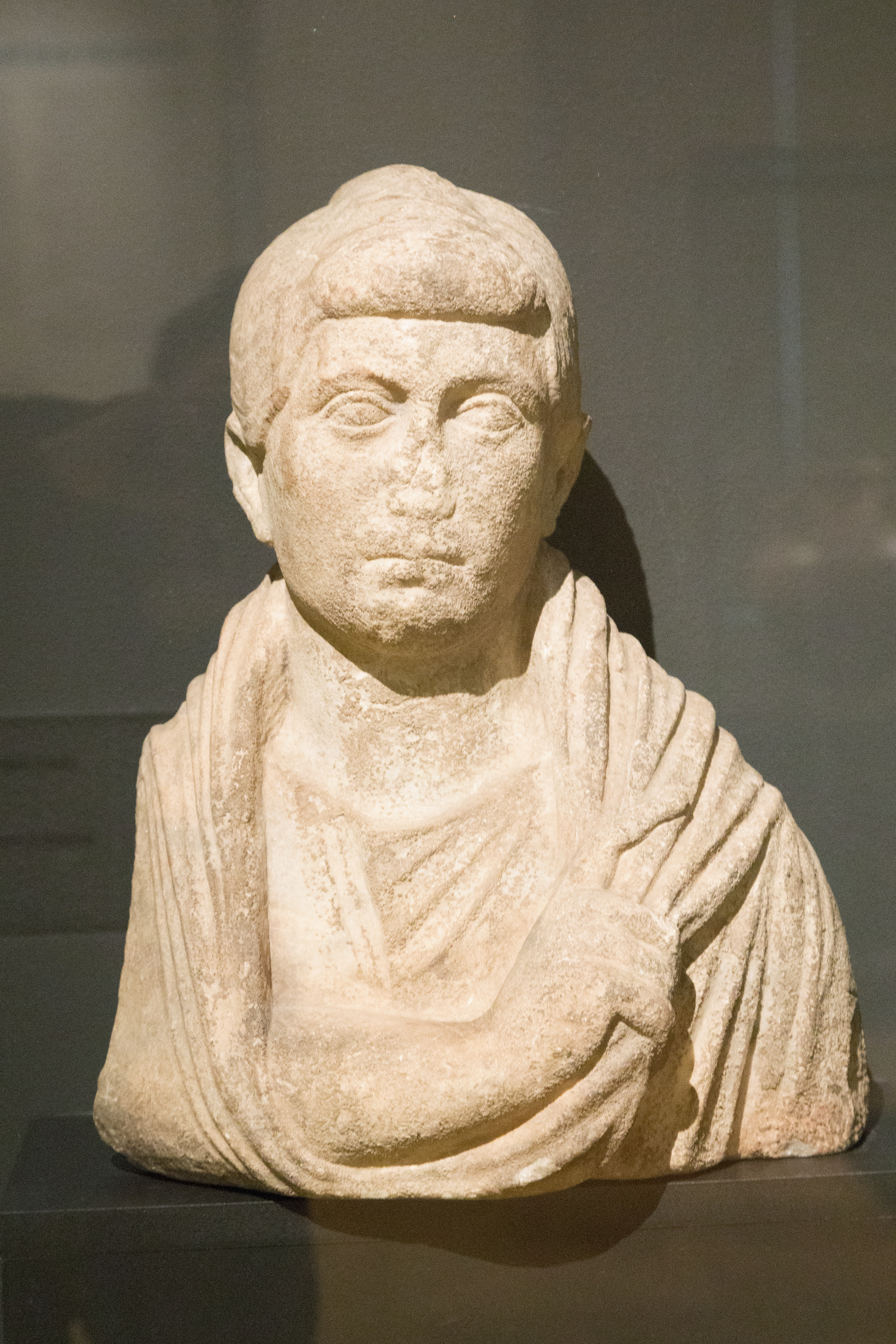 Tombstone bust of a woman dressed in stola and palla. Augustean Period. marble. Prague, NM-H10 4796.